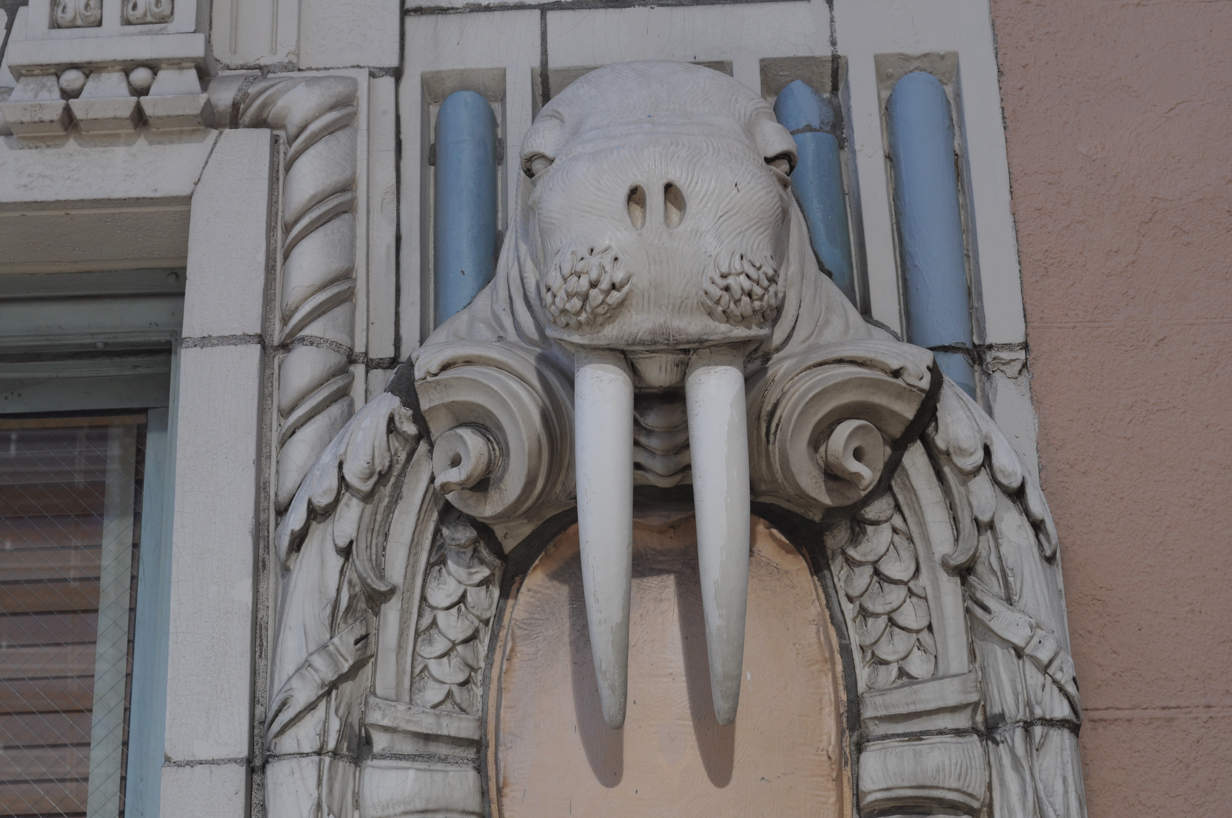 Walrus sculpture, part of the frieze of the terracotta-covered Arctic Building, 306 Cherry Street, Seattle, Washington, USA. The building, designed originally by Warren A. Gould as the Arctic Club was recently turned into a hotel, and is on the National Register of Historic Places, ID #78002749.